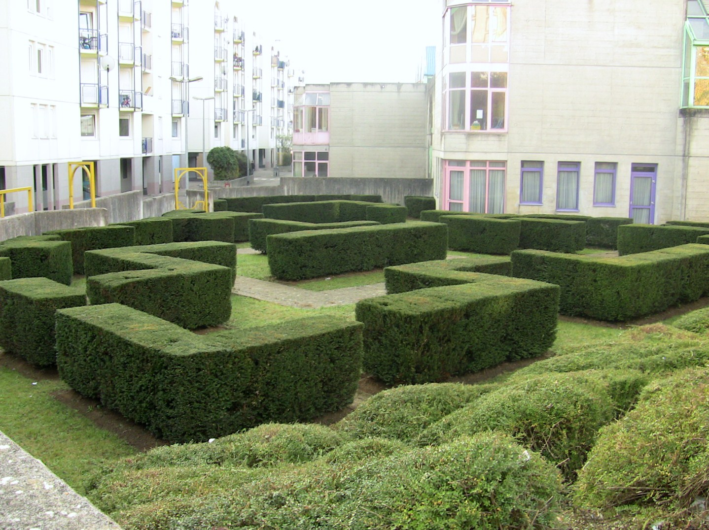 The maze of Planoise, located in Besançon (Doubs, France)